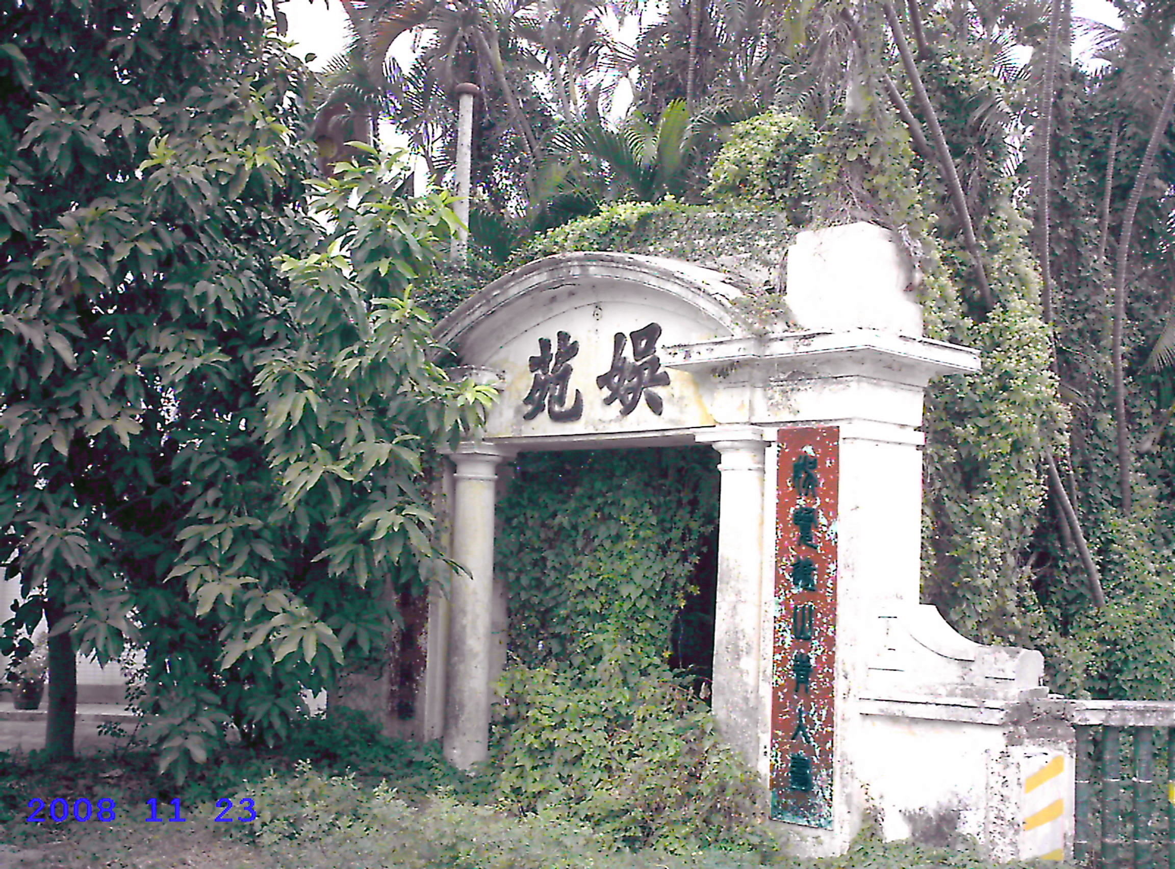 Main Gate of Yu Yuen, Tung Tau Wai, Wang Chau, Yuen Long, New. Territories, Hong Kong 中文（香港）: 香港，新界，元朗，橫州，東頭圍村，娛苑，大閘